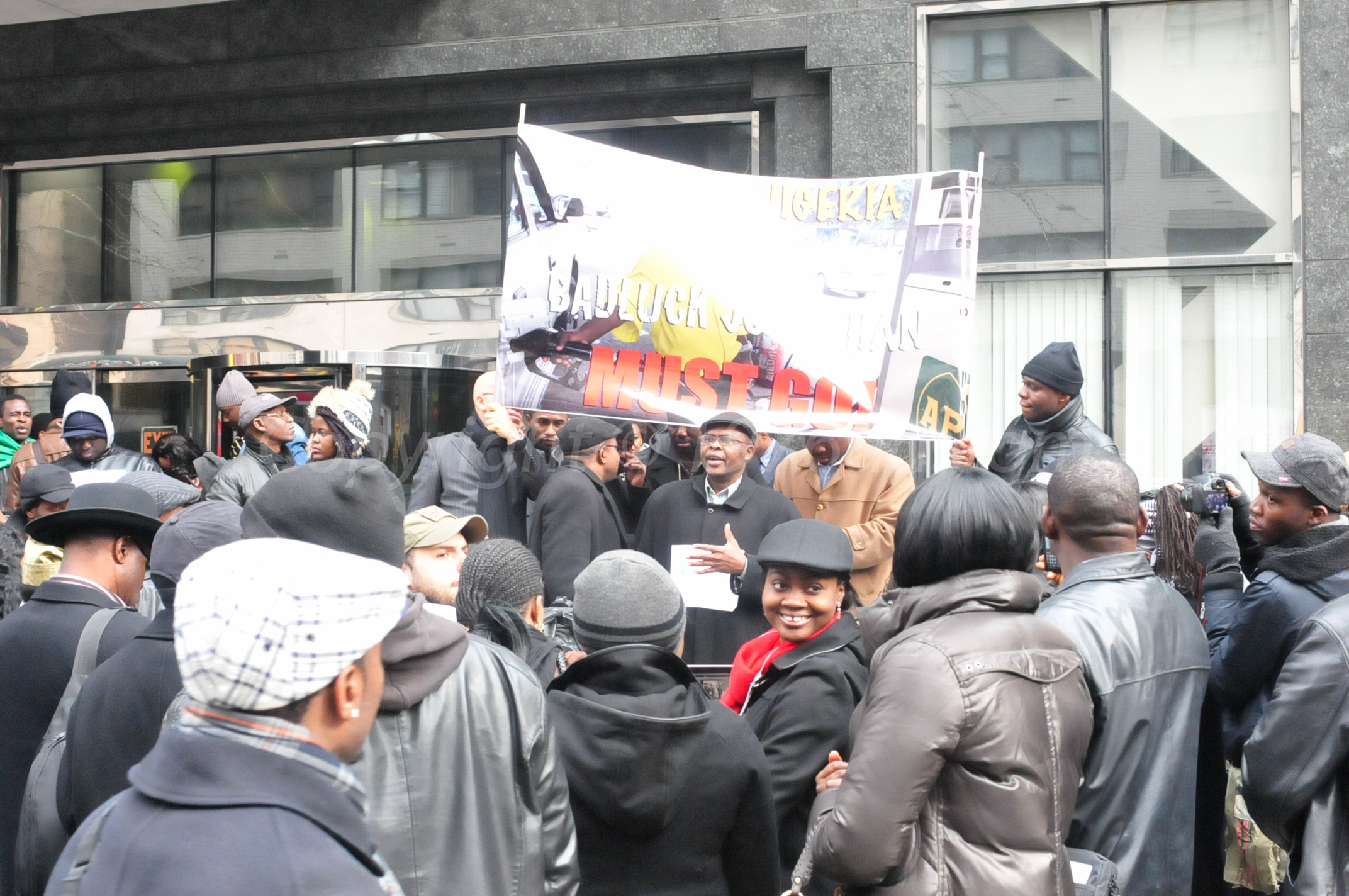 A protest in New York City in support of the "Occupy Nigeria" movement